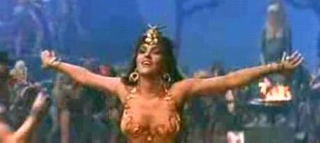 Screenshot of Gina Lollobrigida as Sheba from the Solomon and Sheba trailer